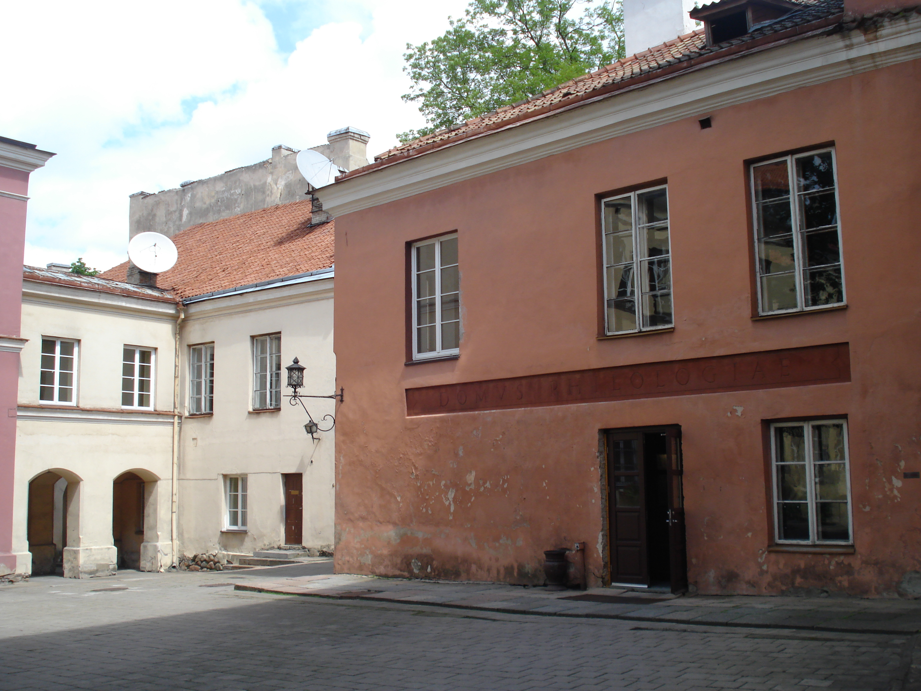 Daukantas Courtyard (Vilnius University)